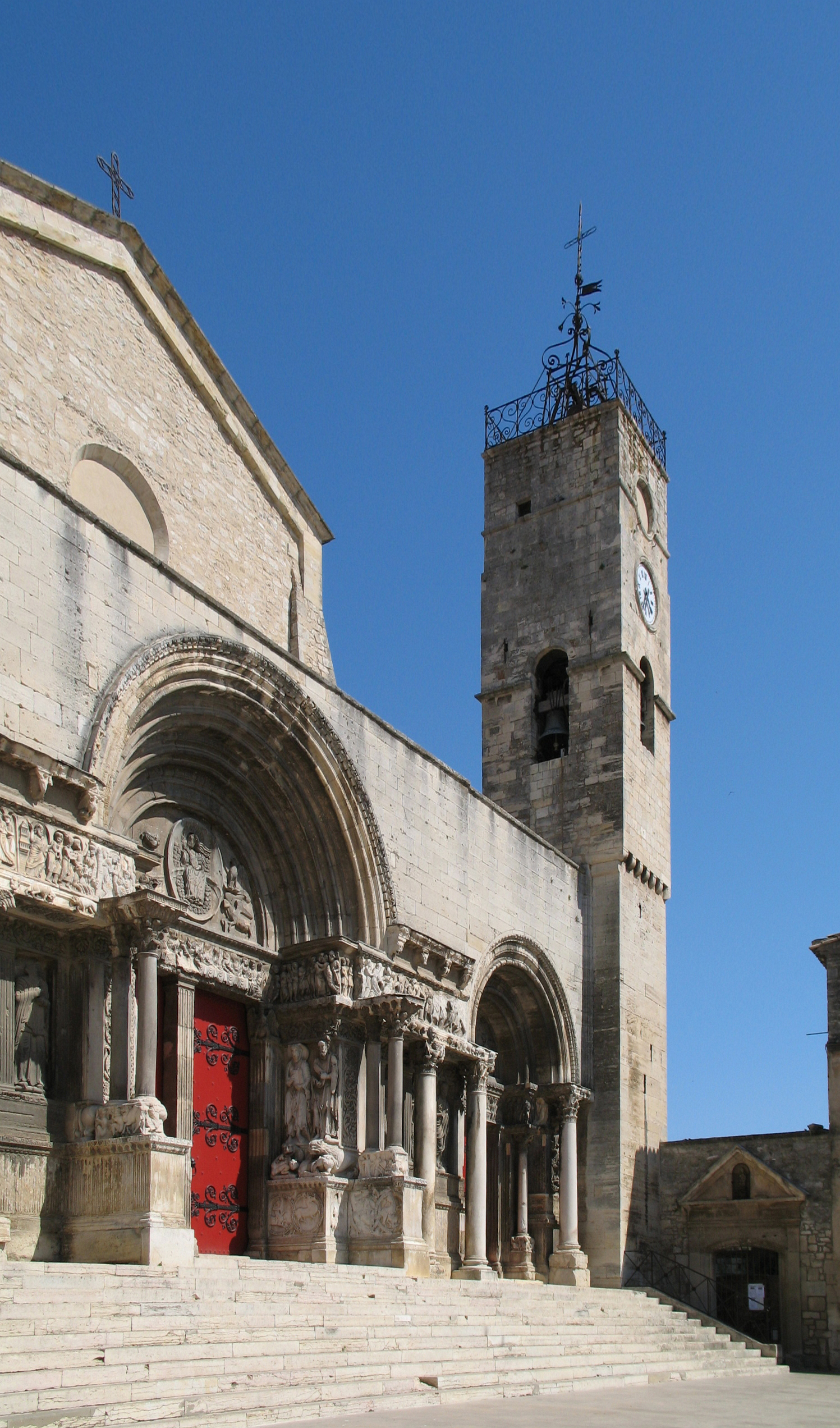 Saint-Gilles-du-Gard (département du Gard, France): abbatial church